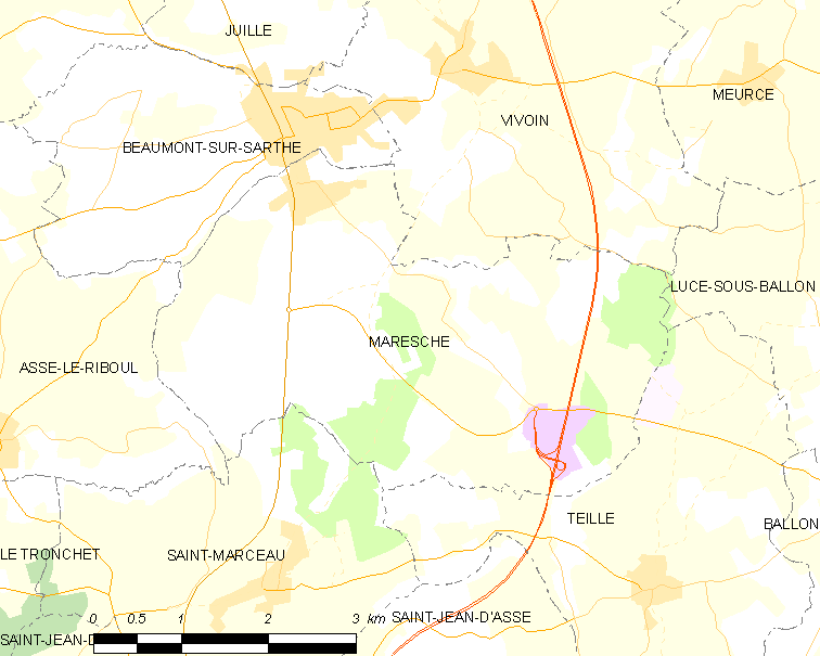 Map of French municipality